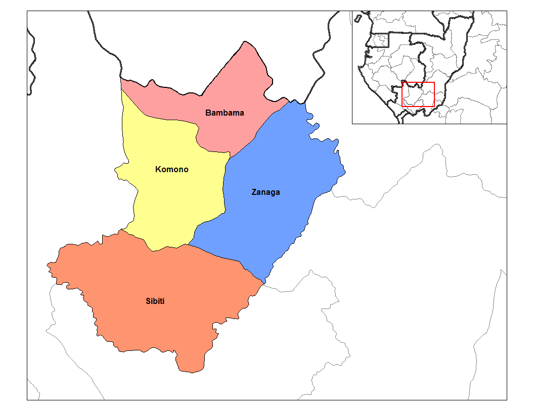 Map of the districts of Lekoumou region in the Republic of the Congo. Created by Rarelibra 14:23, 12 September 2006 (UTC) for public domain use, using MapInfo Professional v8.5 and various mapping resources.